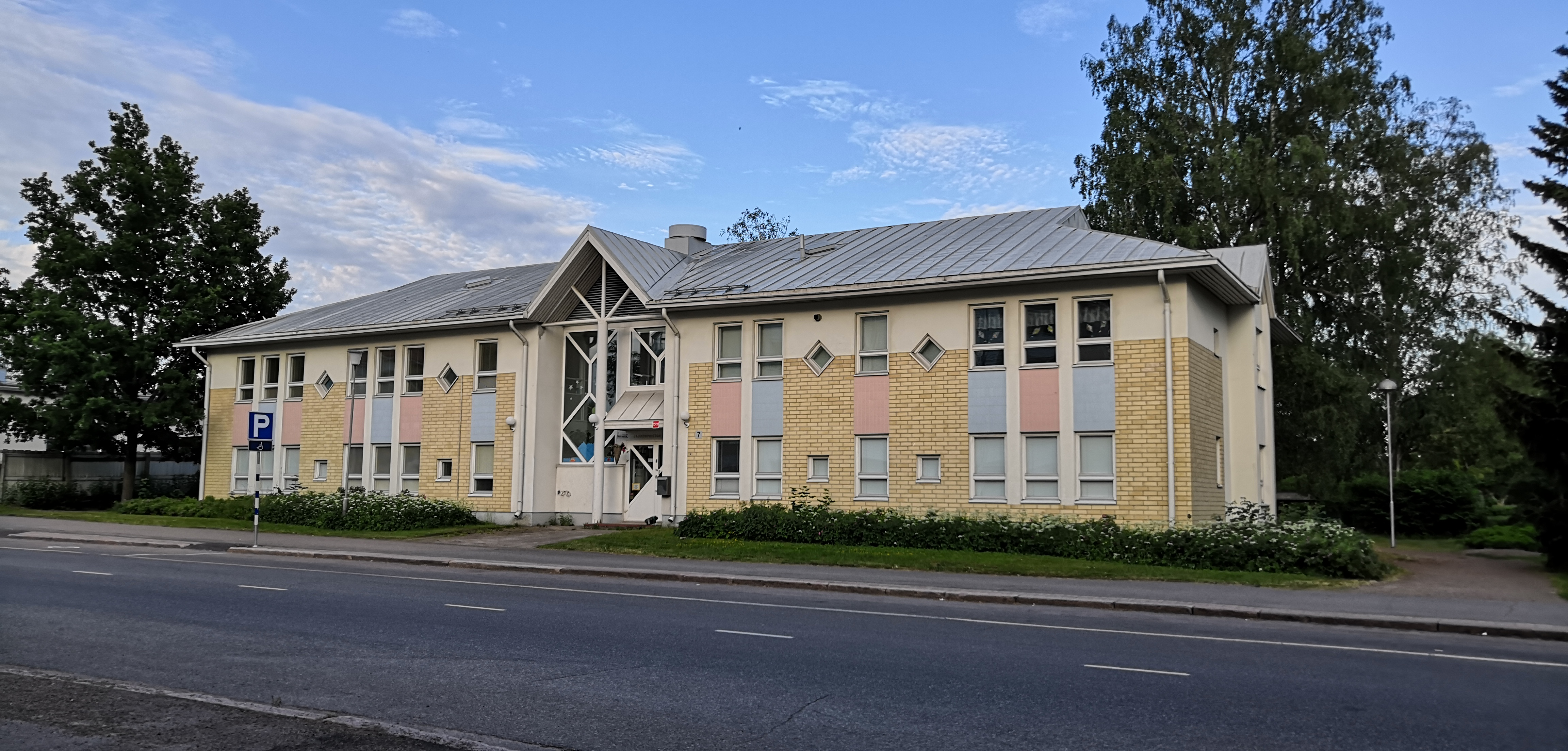 Jaakonpuiston päiväkoti Kouvolassa (kesäkuu 2019)